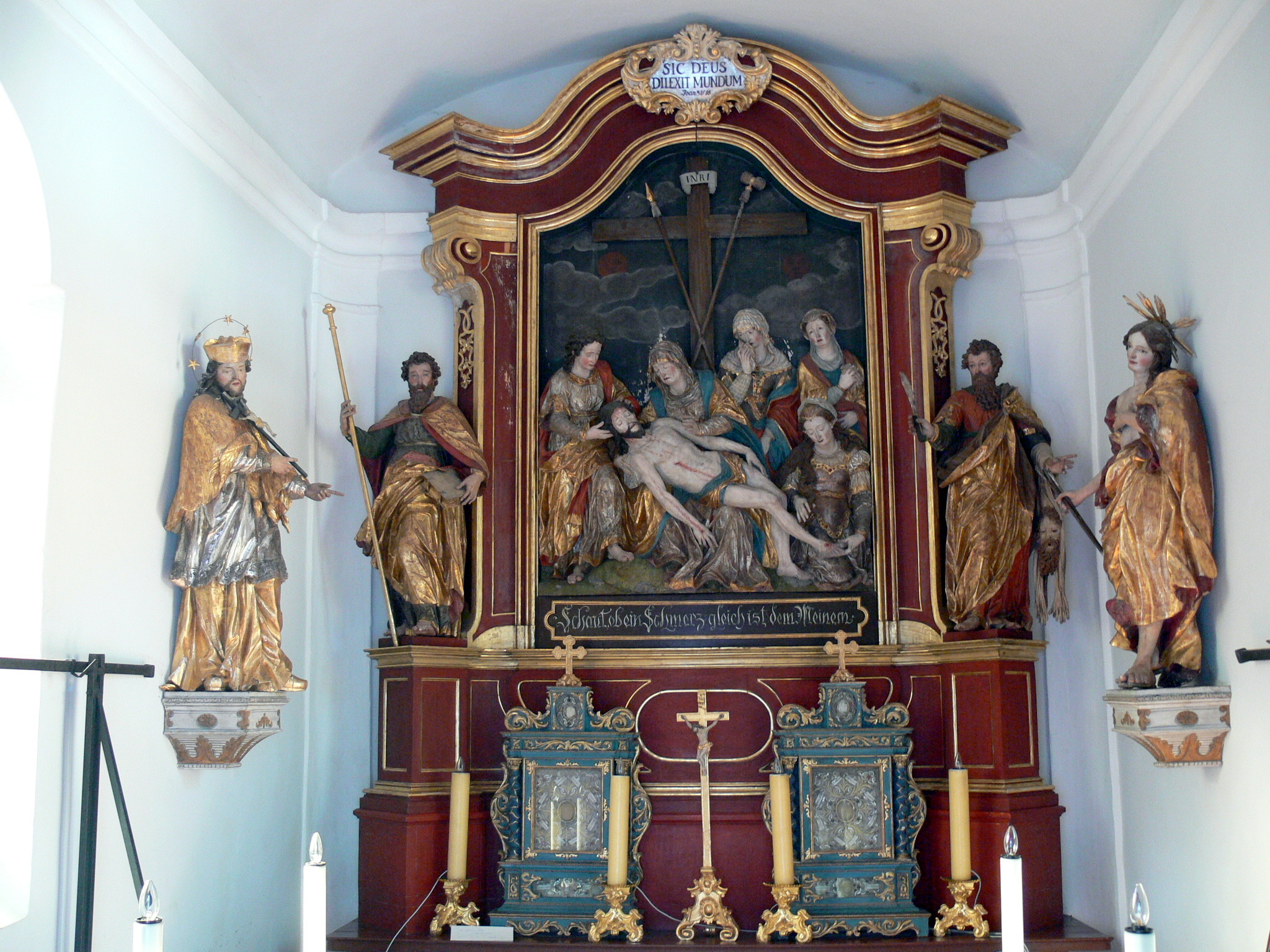 Annaberg-Lungötz ( Salzburg / Austria ). Annaberg cemetery chapel - interior.